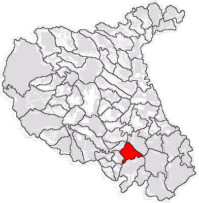 Map with limits of commune